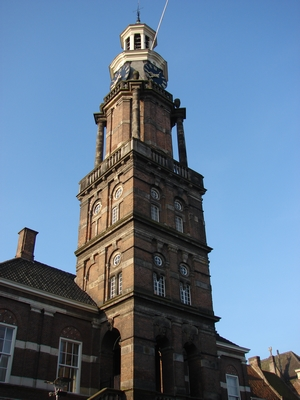 tower zutphen